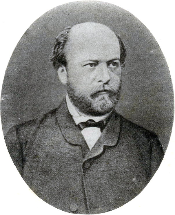 Friedrich Albert Lange was a German philosopher and sociologist.